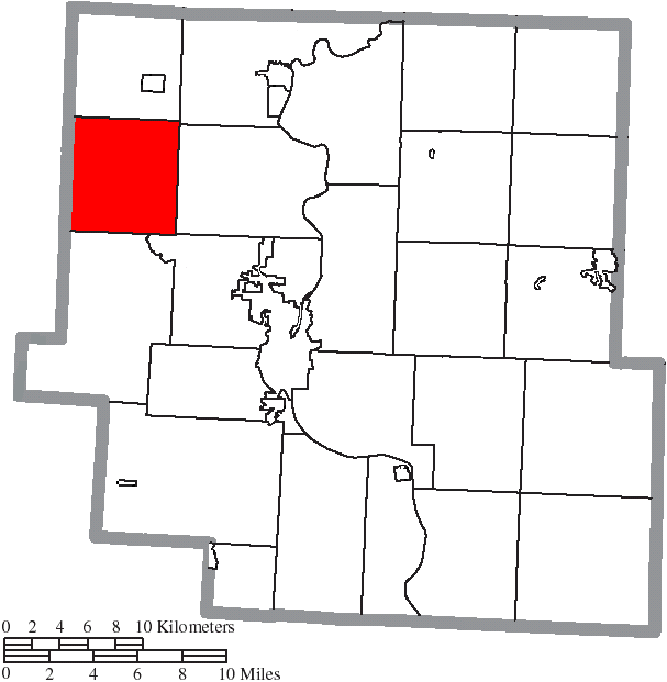 Map of the municipal and township boundaries of Muskingum County, Ohio, United States, as of the 2000 census, with the location of Licking Township highlighted. Township borders are shown only in unincorporated areas in order to differentiate incorporated and unincorporated areas more clearly.